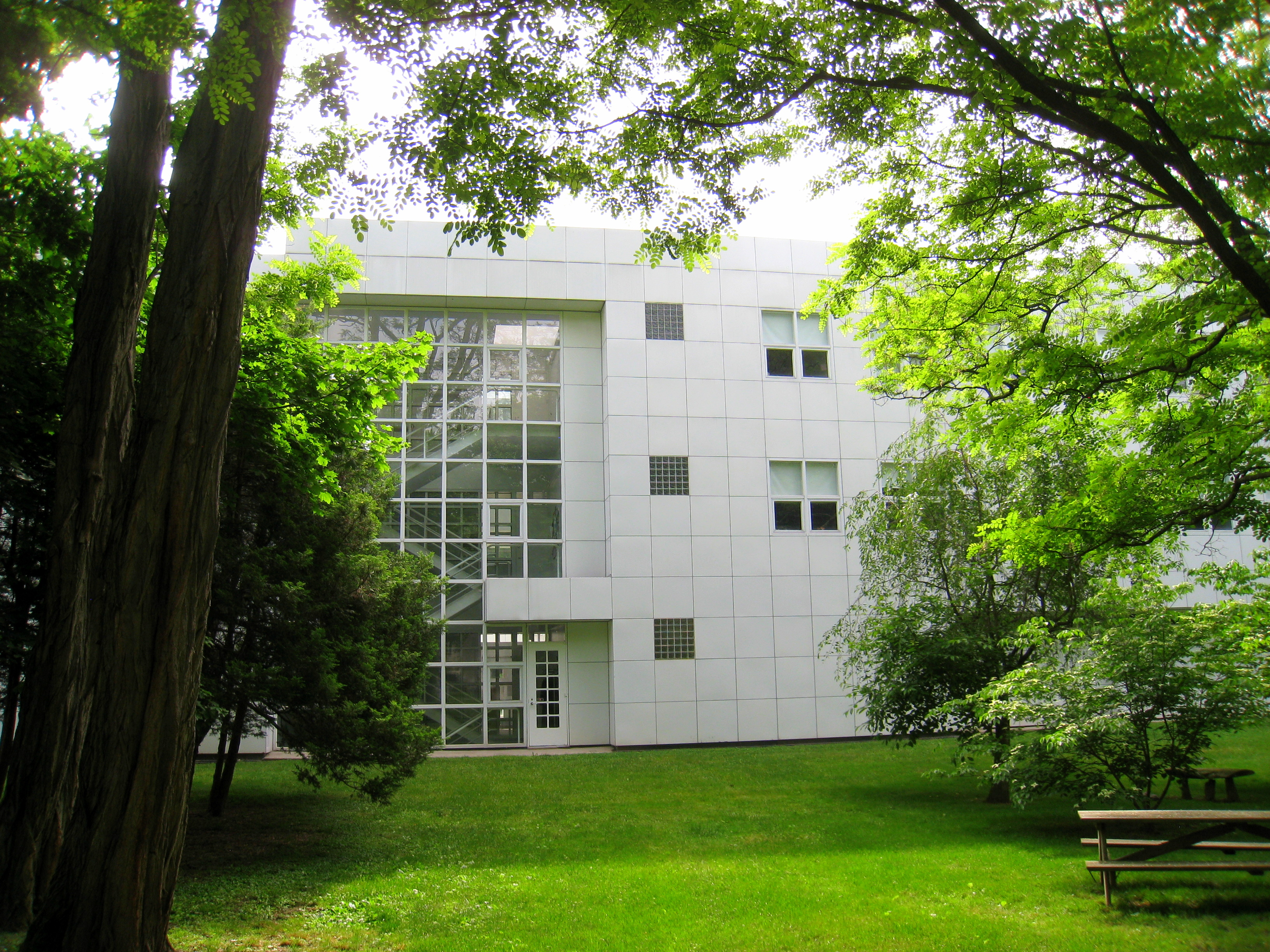 Hartford Seminary - 77 Sherman Street, Hartford, Connecticut, USA. Architect Richard Meier, built 1978-1981.